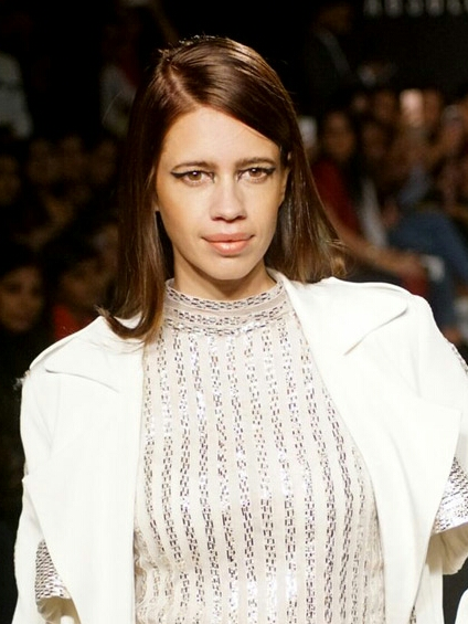 Kalki Koechlin at the 2017 Lakme Fashion Week